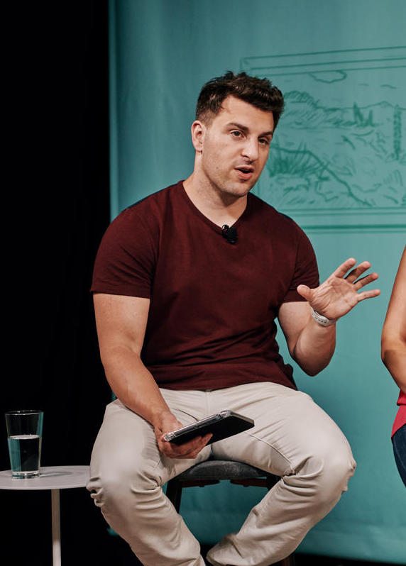 Brian Chesky, co-founder and CEO of Airbnb